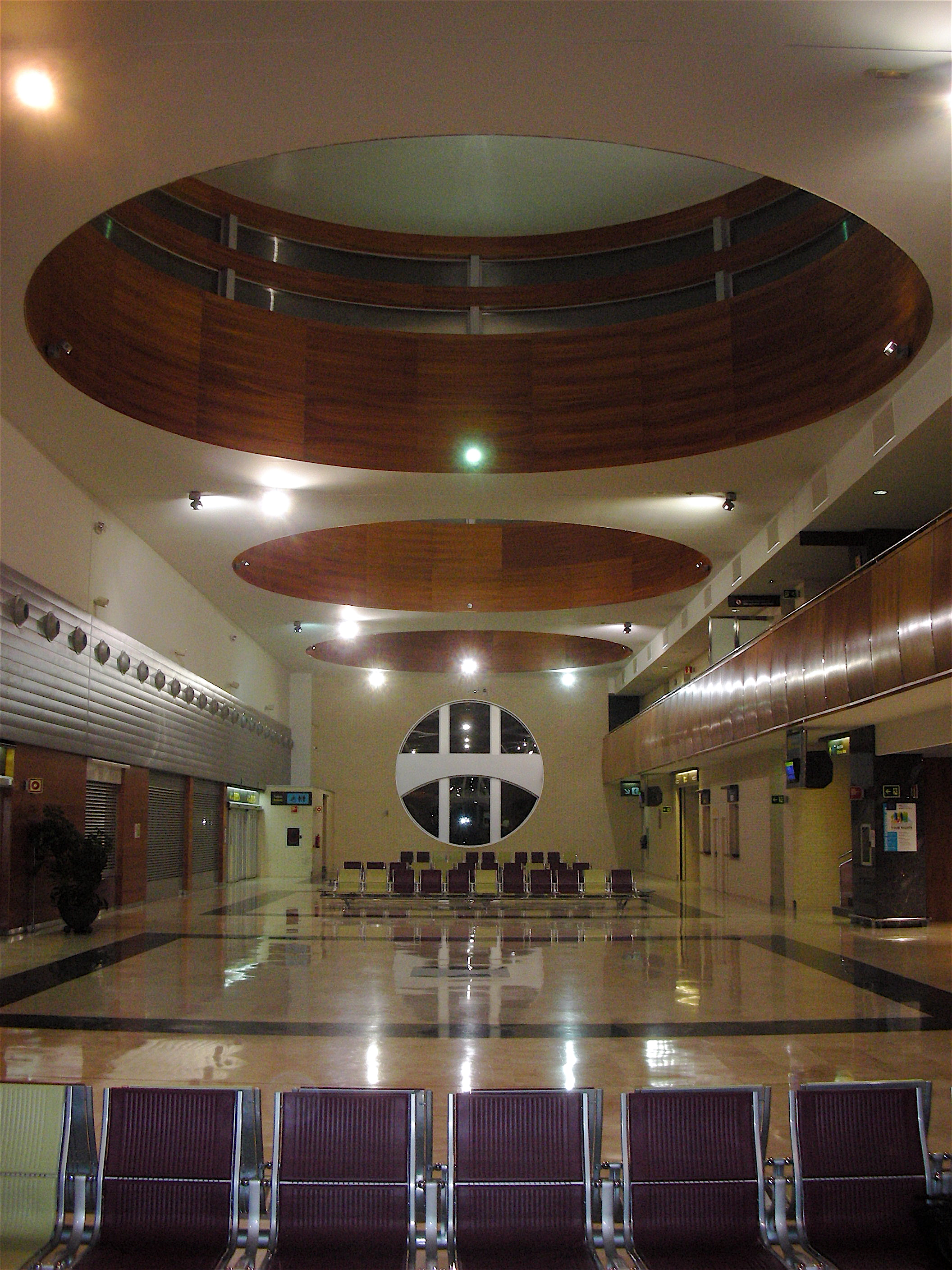 Inner view of the Airport of Logroño (La Rioja, Spain) - Aeropuerto de Logroño or Aeropuerto de Logroño-Agoncillo. It is one of the smallest airports in Spain. Original description (Spanish): "Un aeropuerto pequeñito y agradable, pero sin WiFi... y eso que con un sólo router, lo iluminarían entero..."Aeropuerto de Logroño